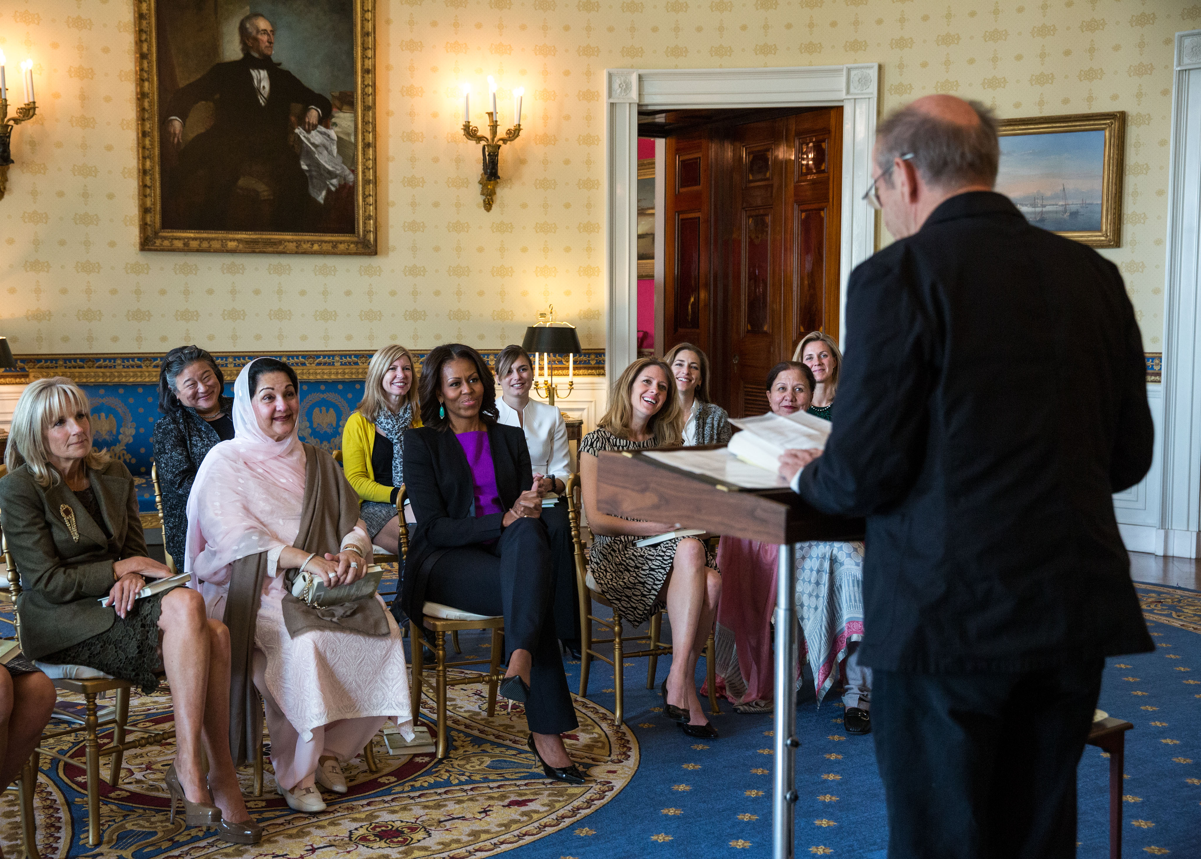 First Lady Michelle Obama and Dr. Jill Biden host a poetry recital in honor of Kalsoom Nawaz Sharif, wife of Pakistan Prime Minister Nawaz Sharif, in the Blue Room of the White House, Oct. 23, 2013. The poems were read by Billy Collins, an American poet, and Sojourner Ahebee, a student poet. (Official White House Photo by Amanda Lucidon) This official White House photograph is being made available only for publication by news organizations and/or for personal use printing by the subject(s) of the photograph. The photograph may not be manipulated in any way and may not be used in commercial or political materials, advertisements, emails, products, promotions that in any way suggests approval or endorsement of the President, the First Family, or the White House.